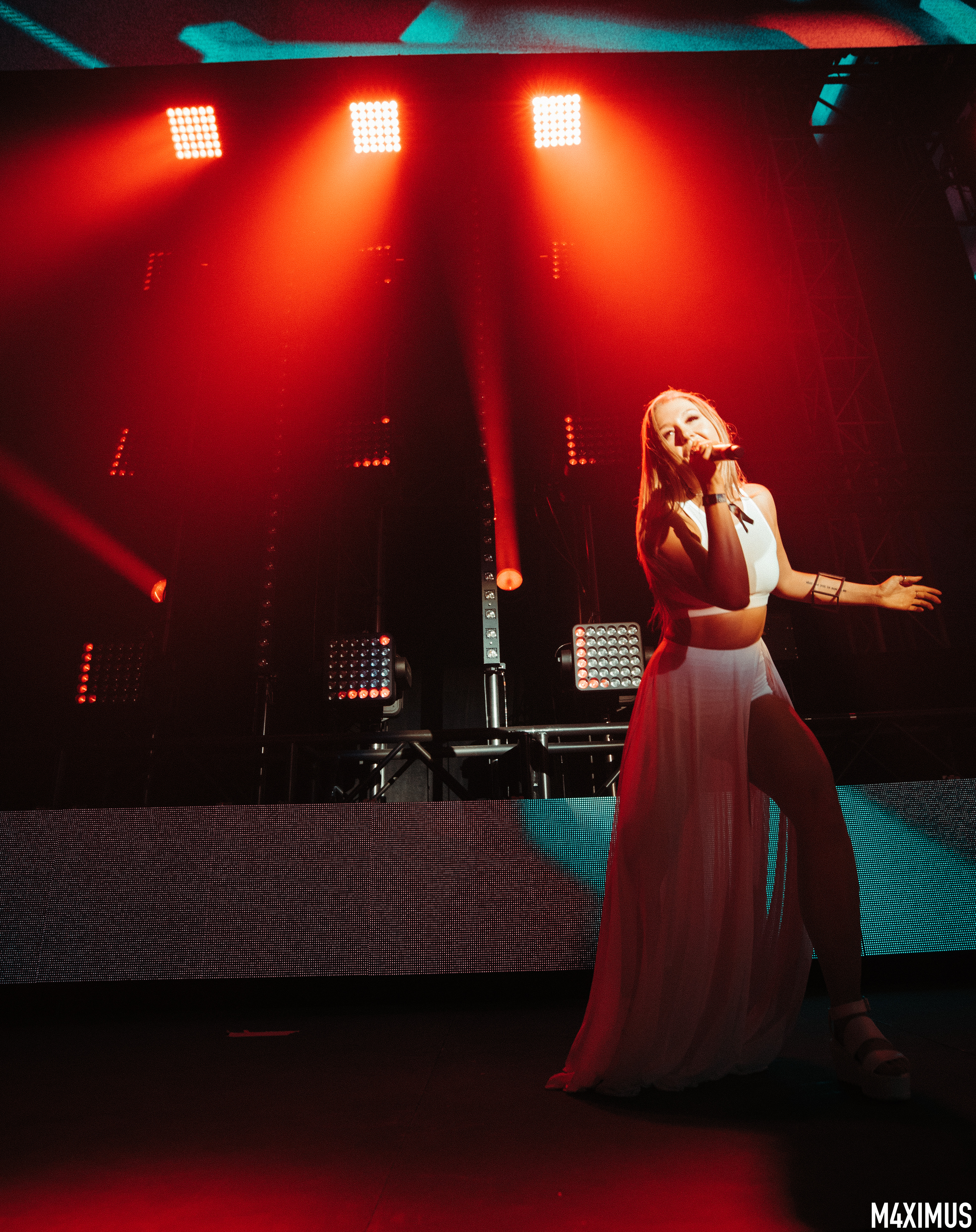 HALIENE performing live at Electric Daisy Festival 2017